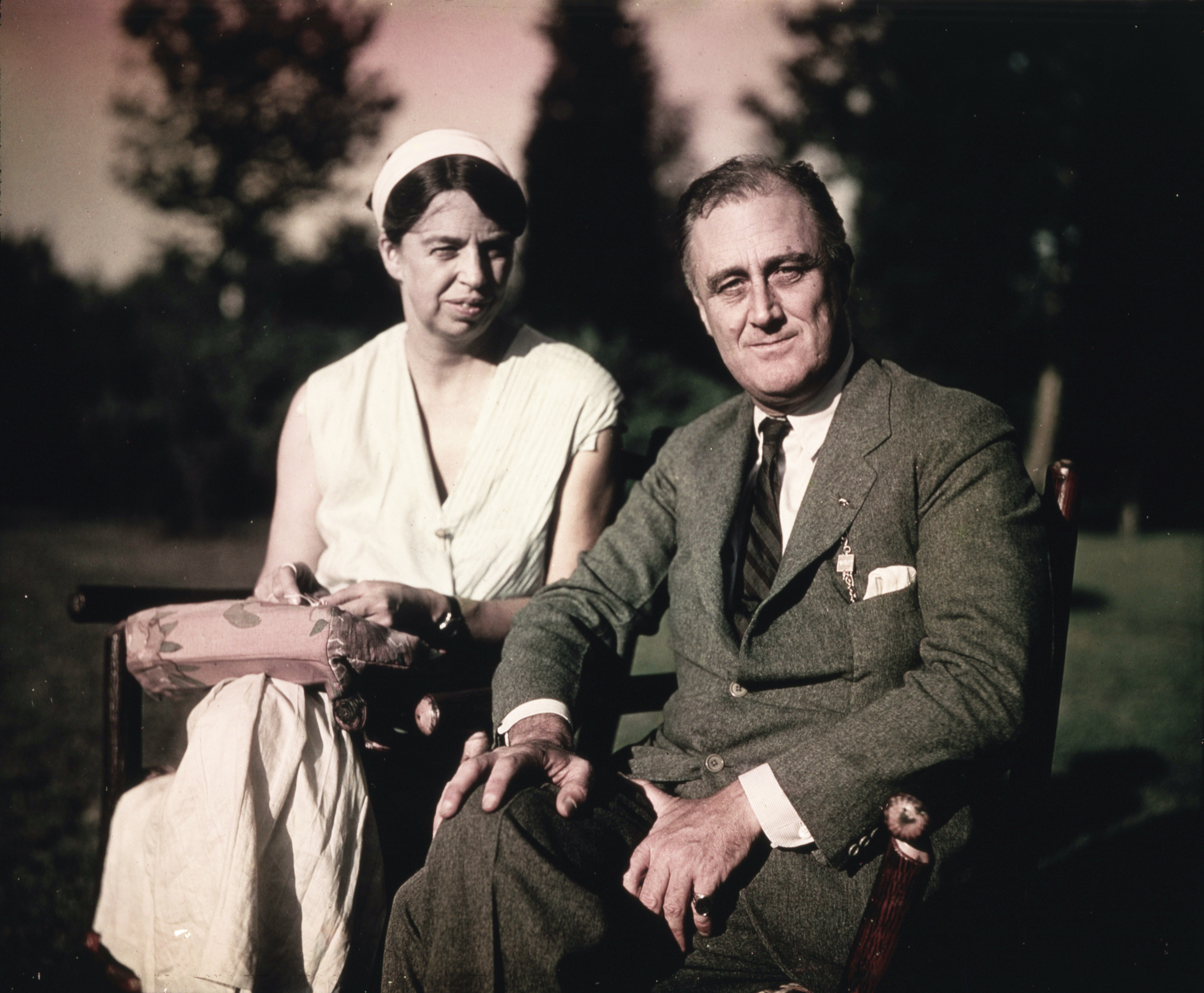 Franklin and Eleanor Roosevelt seated on the south lawn at Hyde Park. Photograph by Oscar Jordan. August 1932.